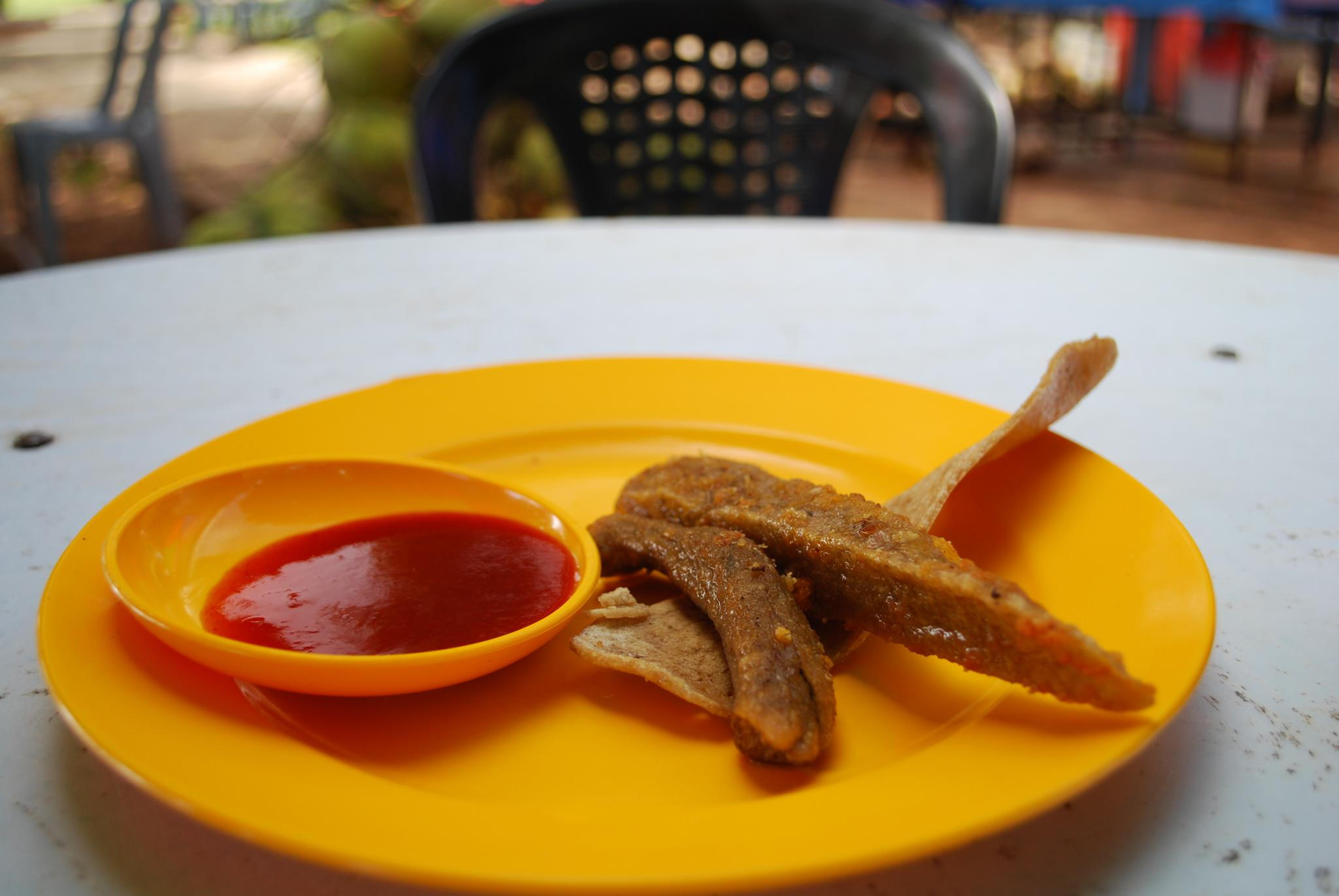 Keropok lekor with sauce, sold on some restaurant in Malaysia.